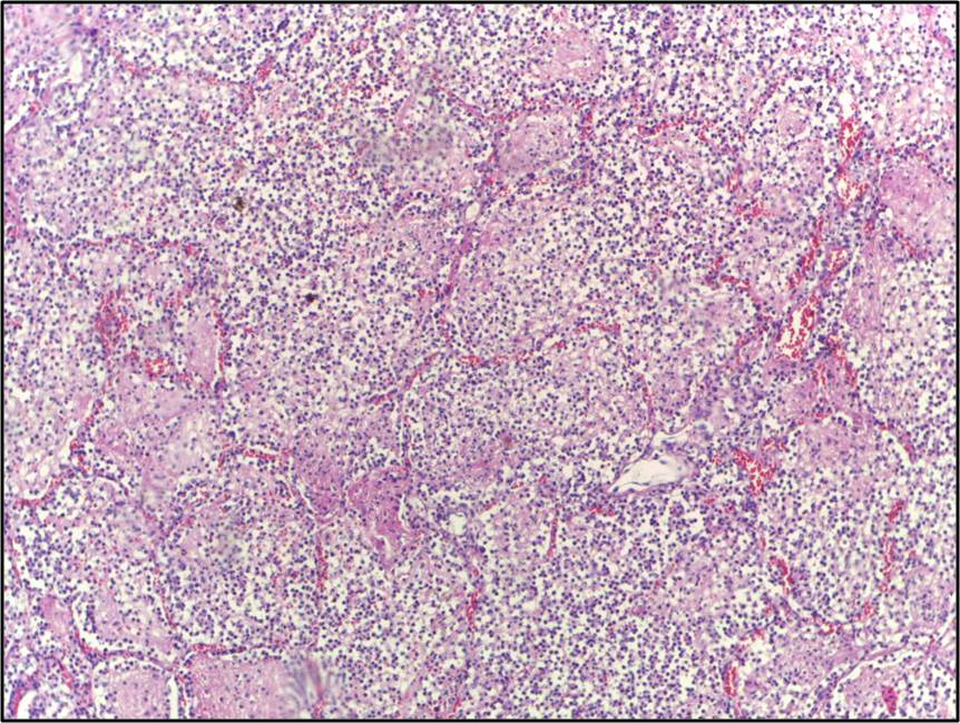 Lung tissue showing numerous neutrophils with minimal exudates in the alveolar space with septal wall congestion. [H&E stain 10X]